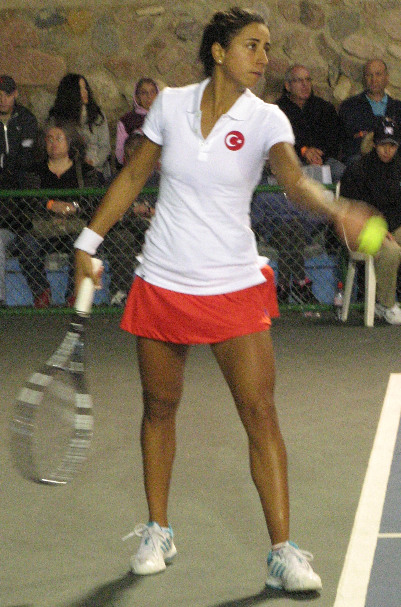 The tennis player Çağla Büyükakçay of Turkey during her match against Agnieszka Radwańska of Poland in the 2nd day of Fed Cup Group I 2013 Europe/ Africa in Eilat, Israel.